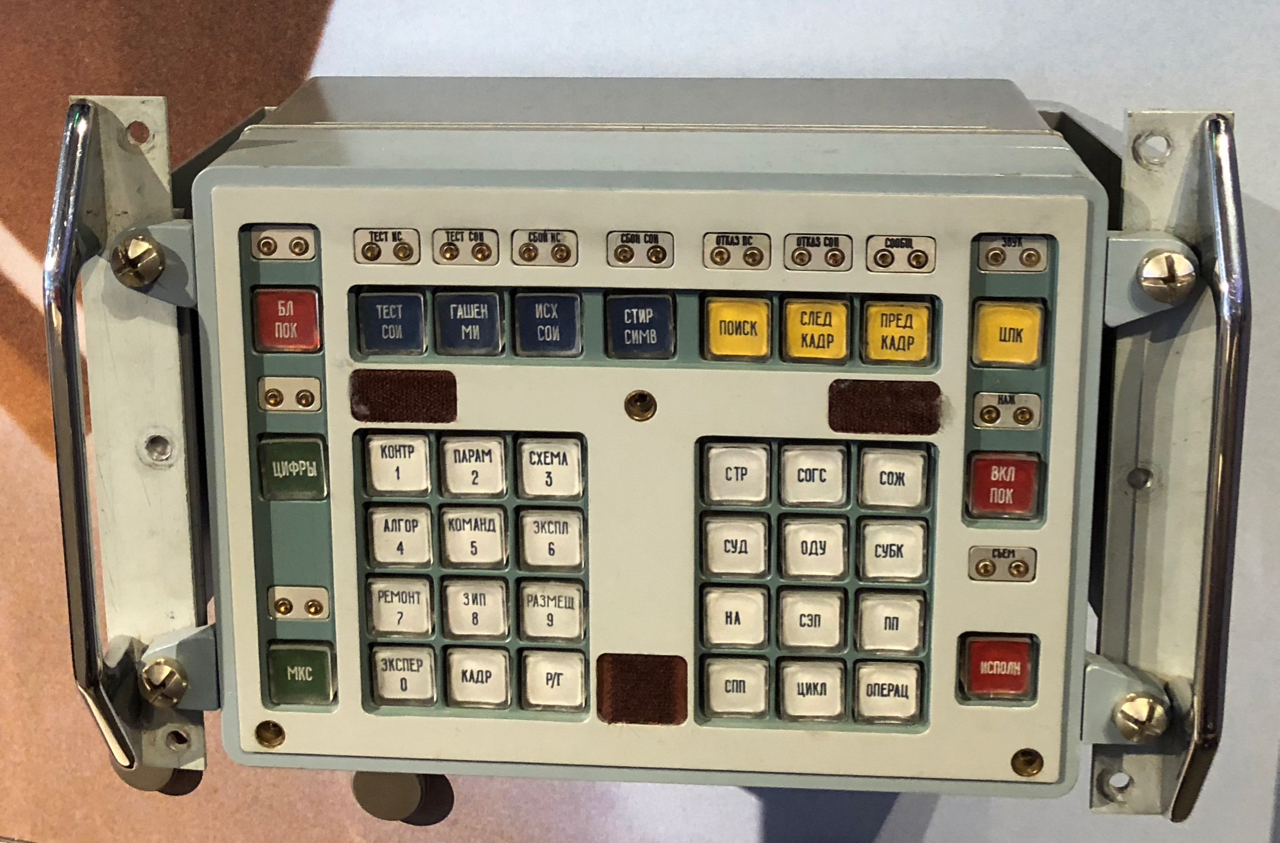 MIR Space Station onboard computer user interface, USSR, 1990s, at the Computer History Museum